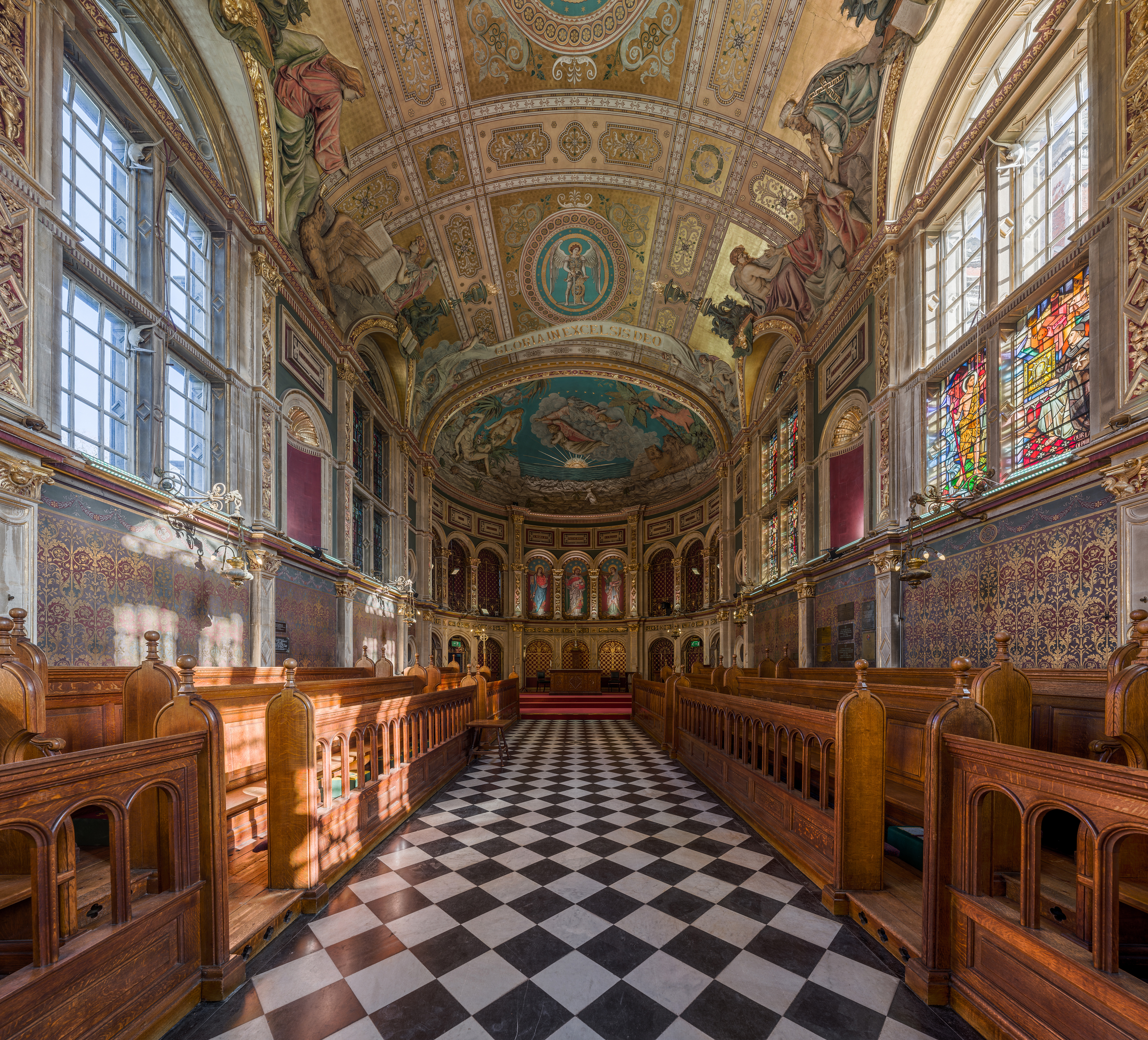 The interior of the chapel looking north-east at Royal Holloway, University of London, Surrey, England.